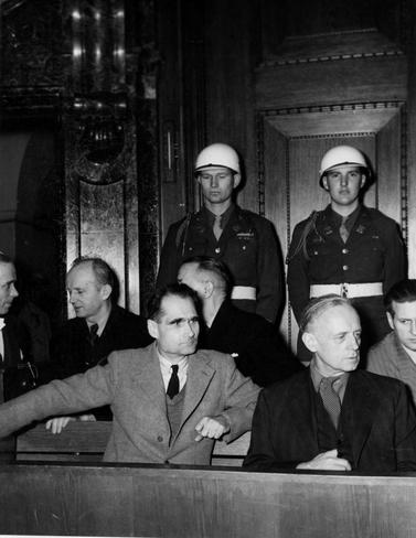 Rudolf Hess and Joachim von Ribbentrop on trial at the International Military Tribunal, Nuremberg